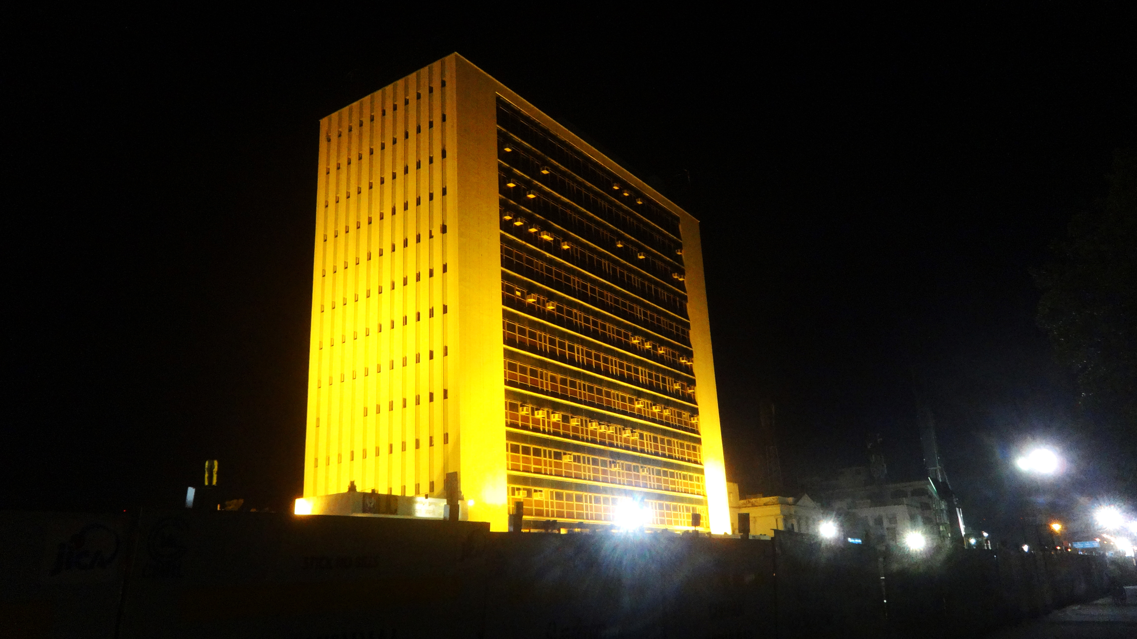 LIC building at Night. From Anna Salai, Chennai